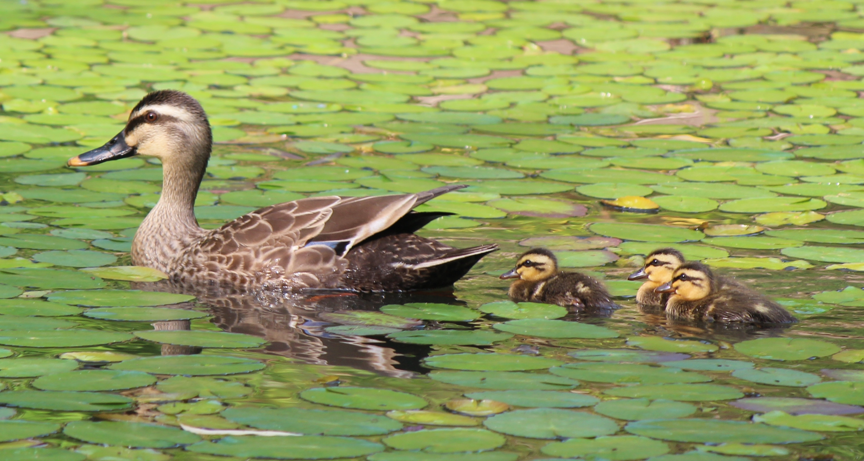 Anas zonorhyncha (Eastern Spot-billed Duck), mother and 3 ducklings swimming in the pond, 138 Tower Park, Ichinomiya, Aichi prefecture, Japan.